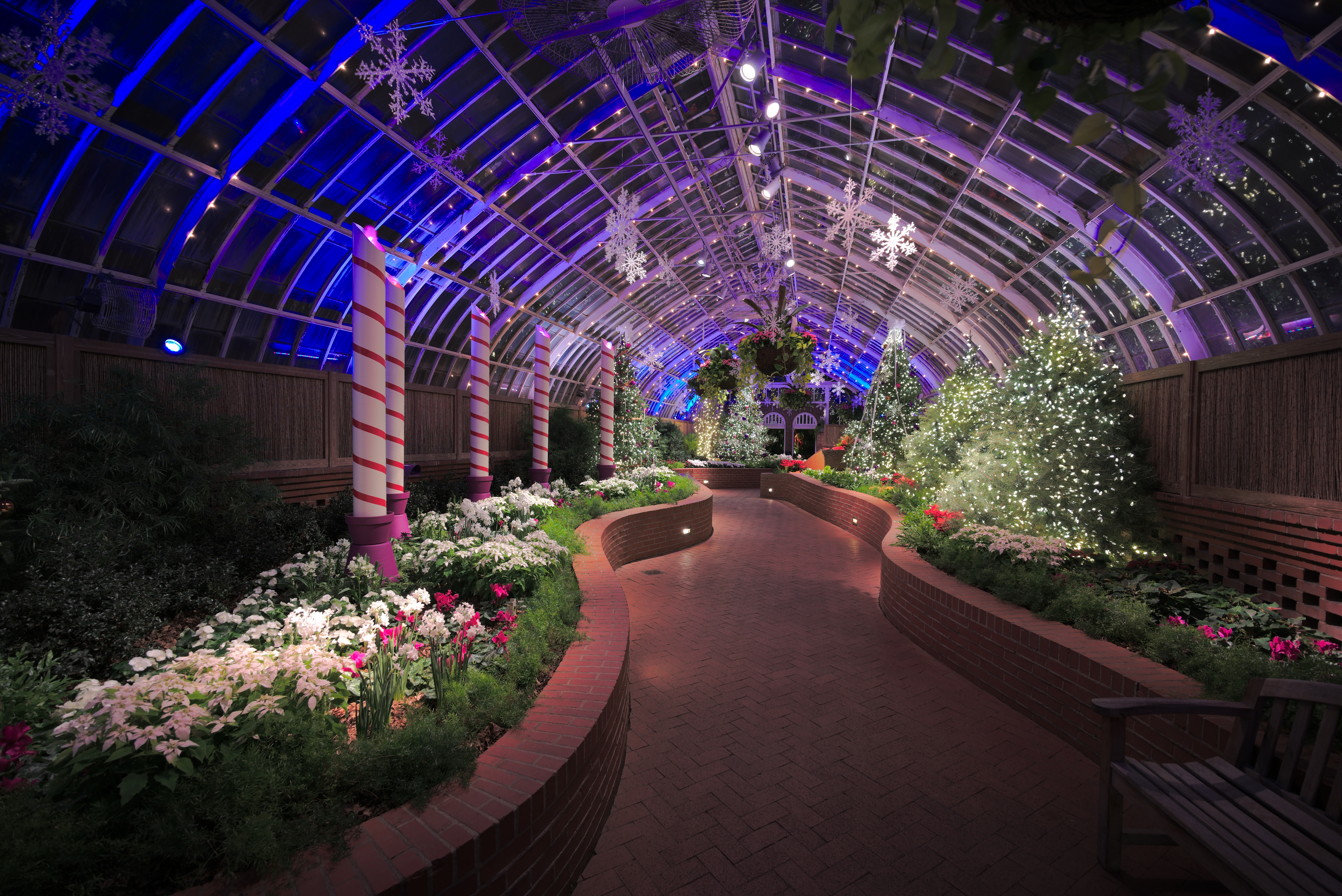 The Serpentine Room at the Phipps Conservatory and Botanical Gardens during the winter flower show of 2015. The lighting of the room is continually changing.